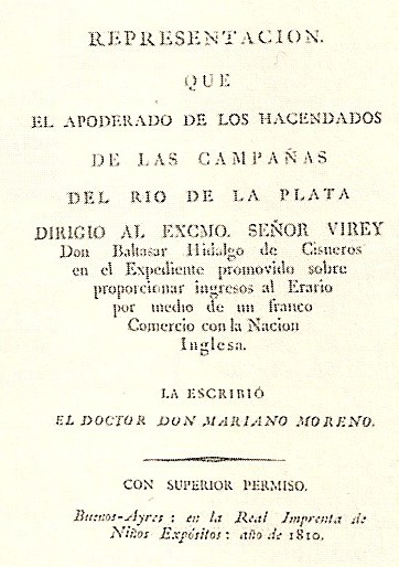 Cover of the report "La Representación de los Hacendados" ("Representation of the Landowners"), written by Mariano Moreno and given to the then viceroy, Cisneros, in 1809